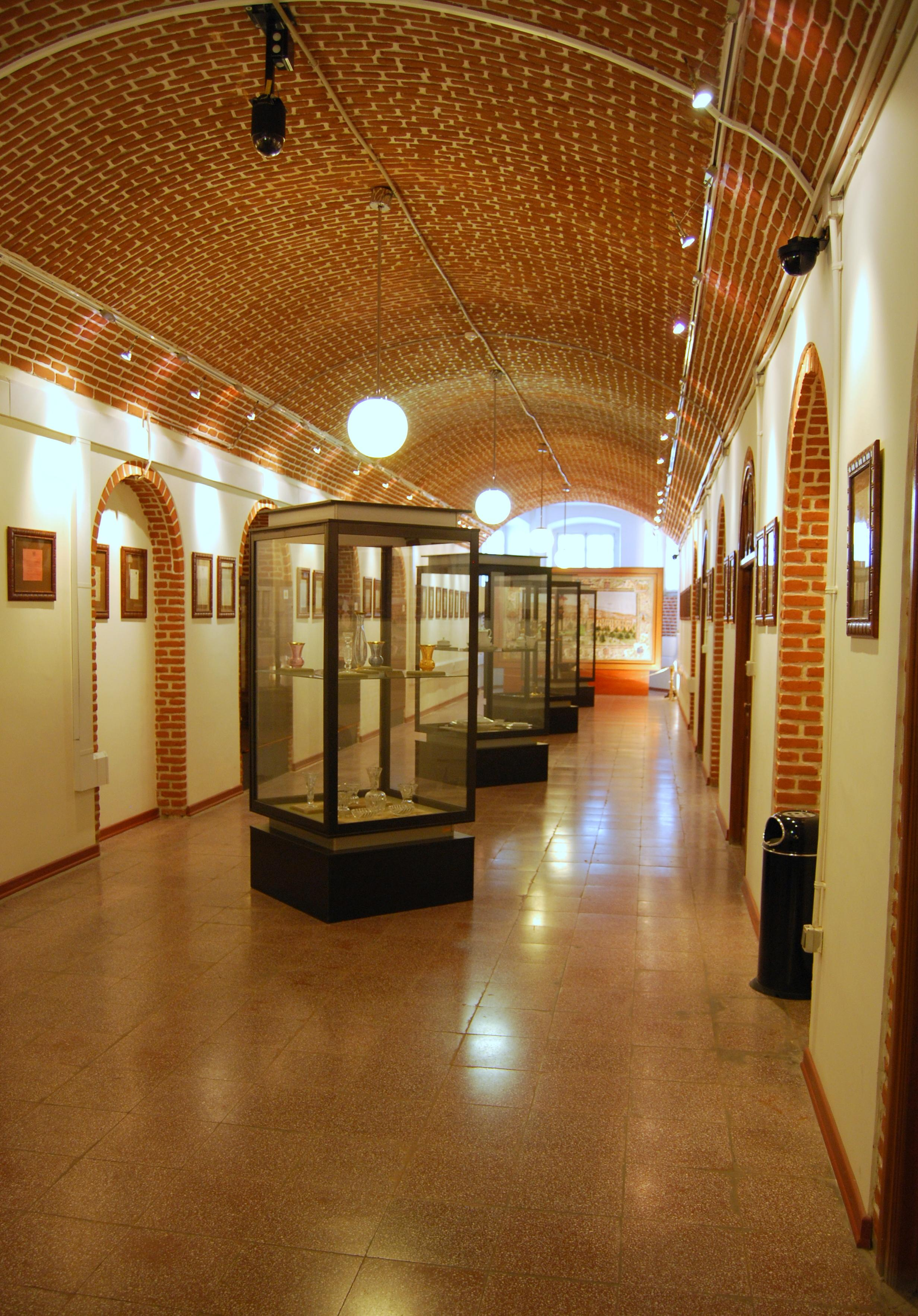 Municipality Museum of Tabriz.